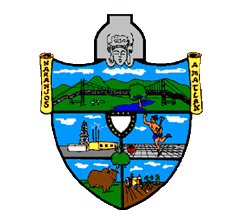 Naranjos amatlan